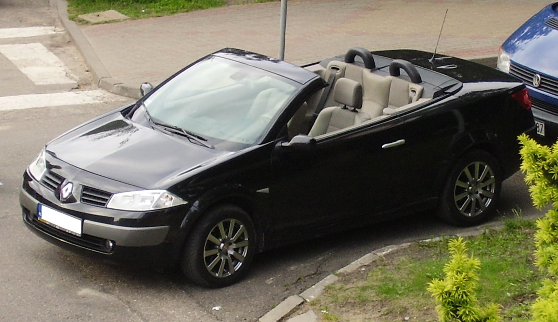 Renault Megane II CC in Międzyzdroje (Poland)